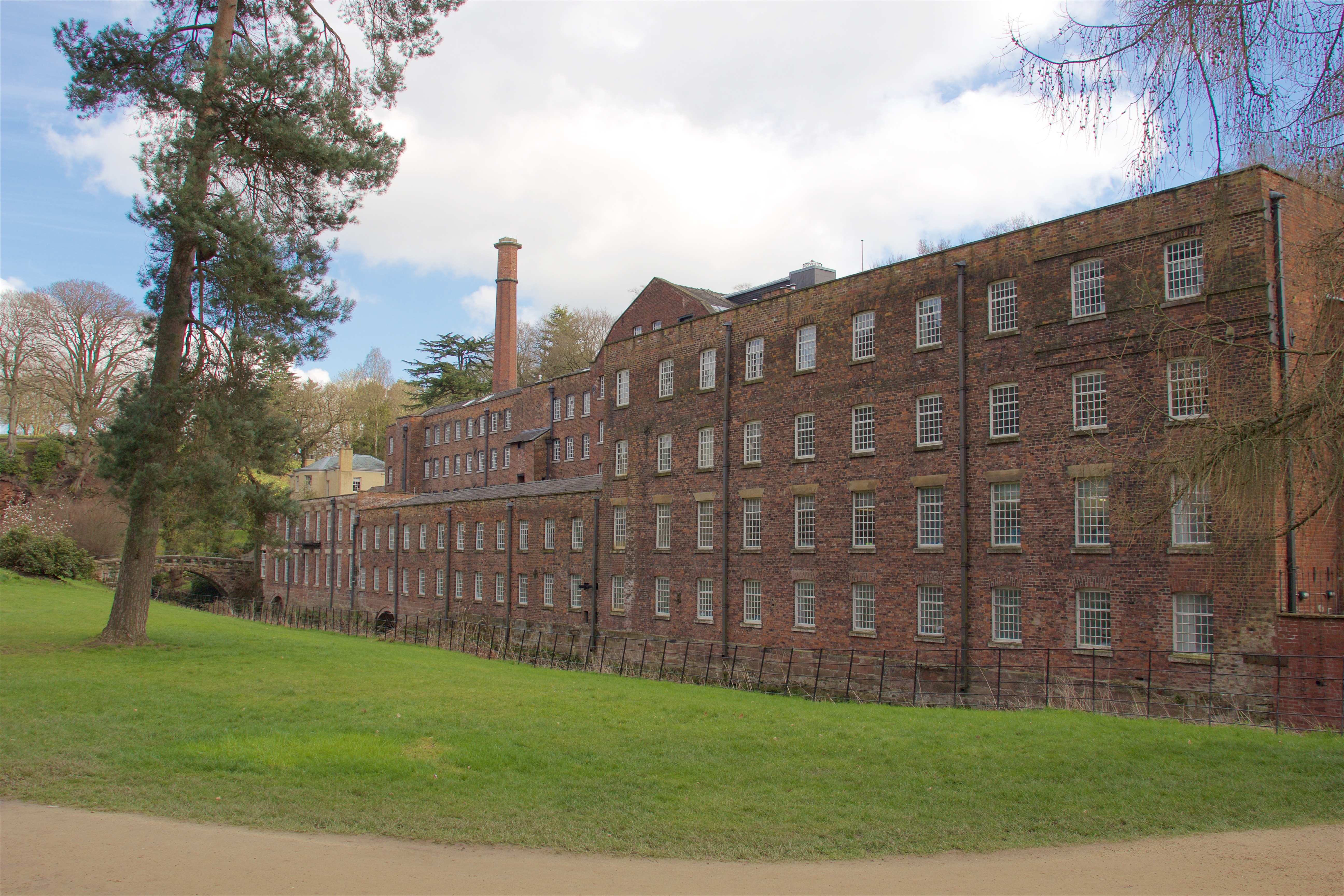 Quarry Bank Mill, UK, in April 2016